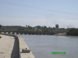 Picture of bridge over Gharraf Canal at Qalat Sukkar, Iraq (best copy available)